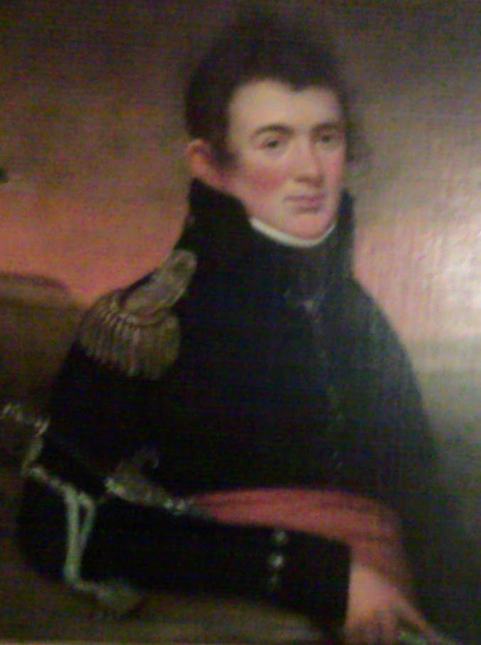 Rep. Joseph Henderson Former Representative from Pennsylvania’s 14th District, Jackson